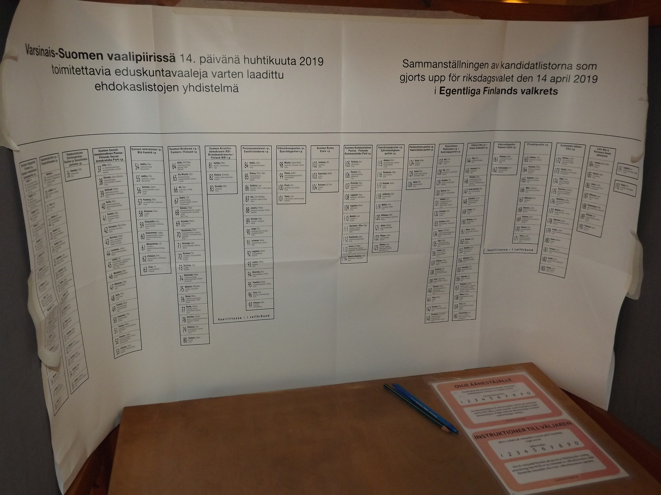 Finnish elections. List of candidates arranged in columns by party (or list of wild candidates). For each candidate, number, name, title or profession, and municipality is given. Electoral alliances are marked. To the far right two lone candidates. On the table there are instructions for the voter, including model figures – the vote is cast by writing a candidate's number on the ballot.